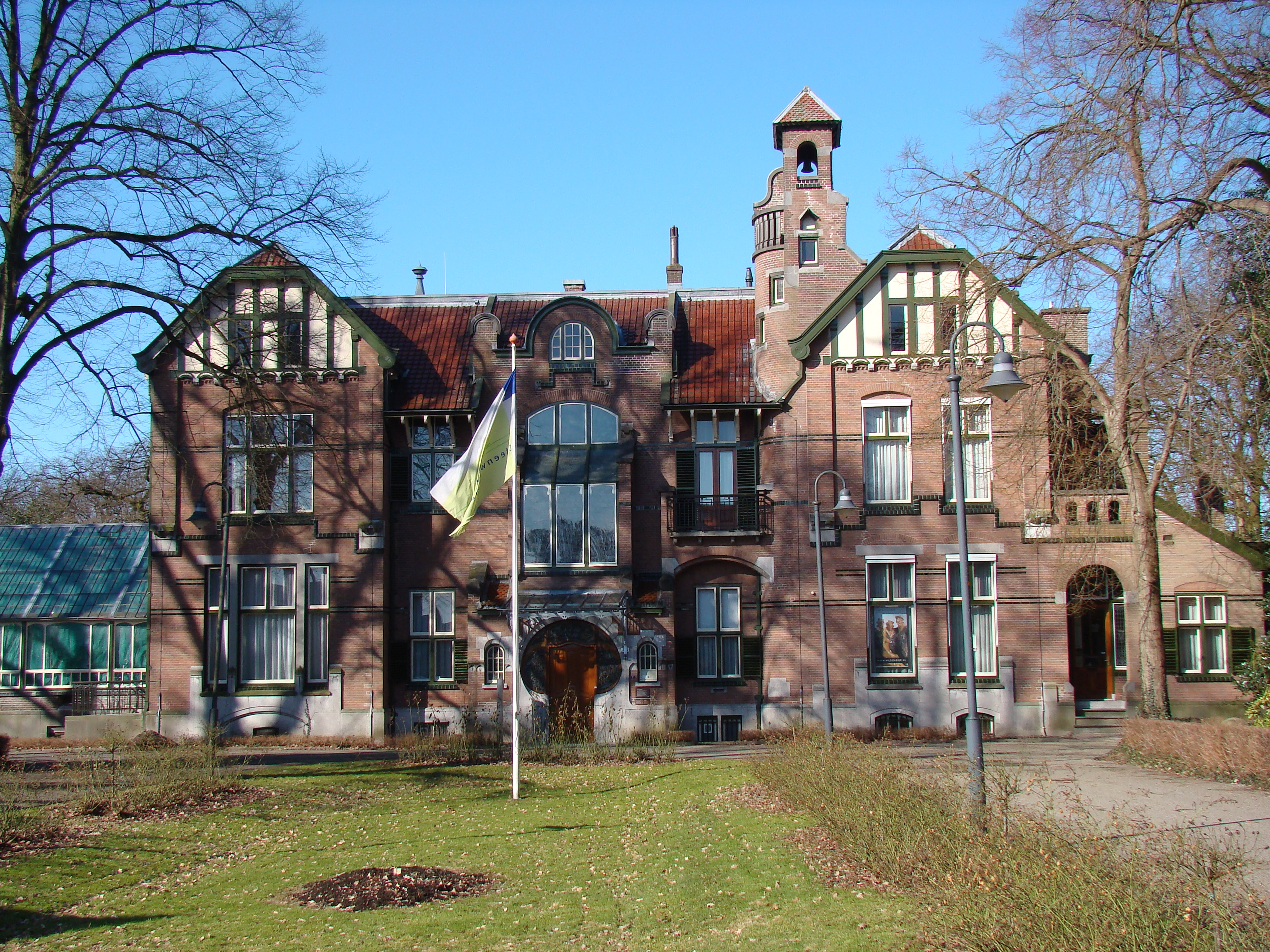 "Rams woerthe" house at Steenwijk, Netherlands